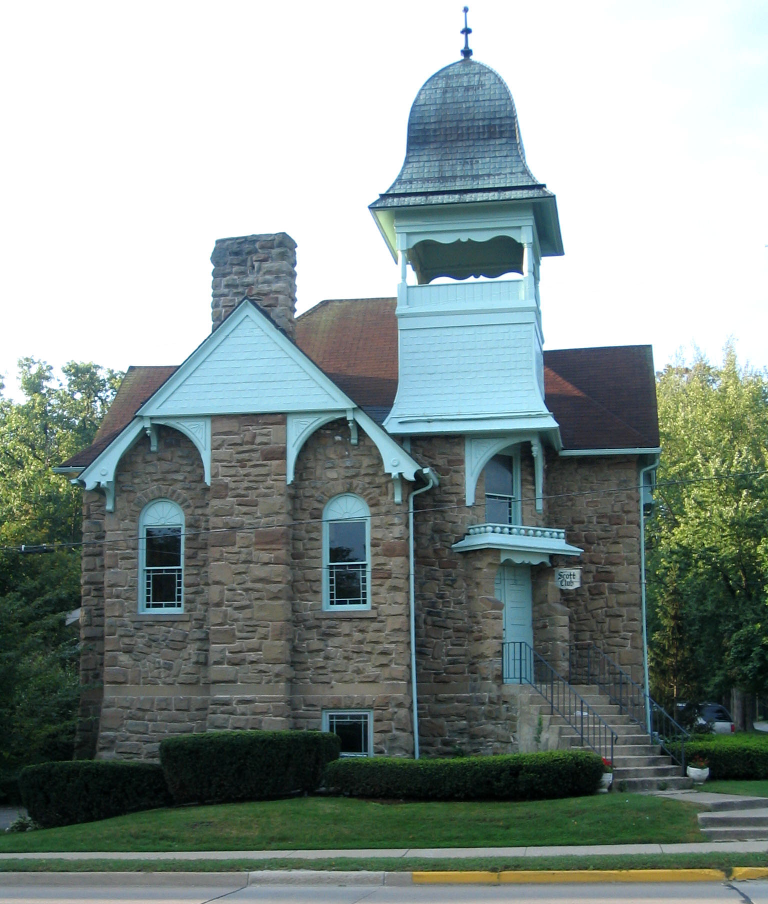 The Scott Club on Phoenix St. was constructed in 1891. It is located in South Haven, Michigan, USA. Author: D.R.J. Stiennon